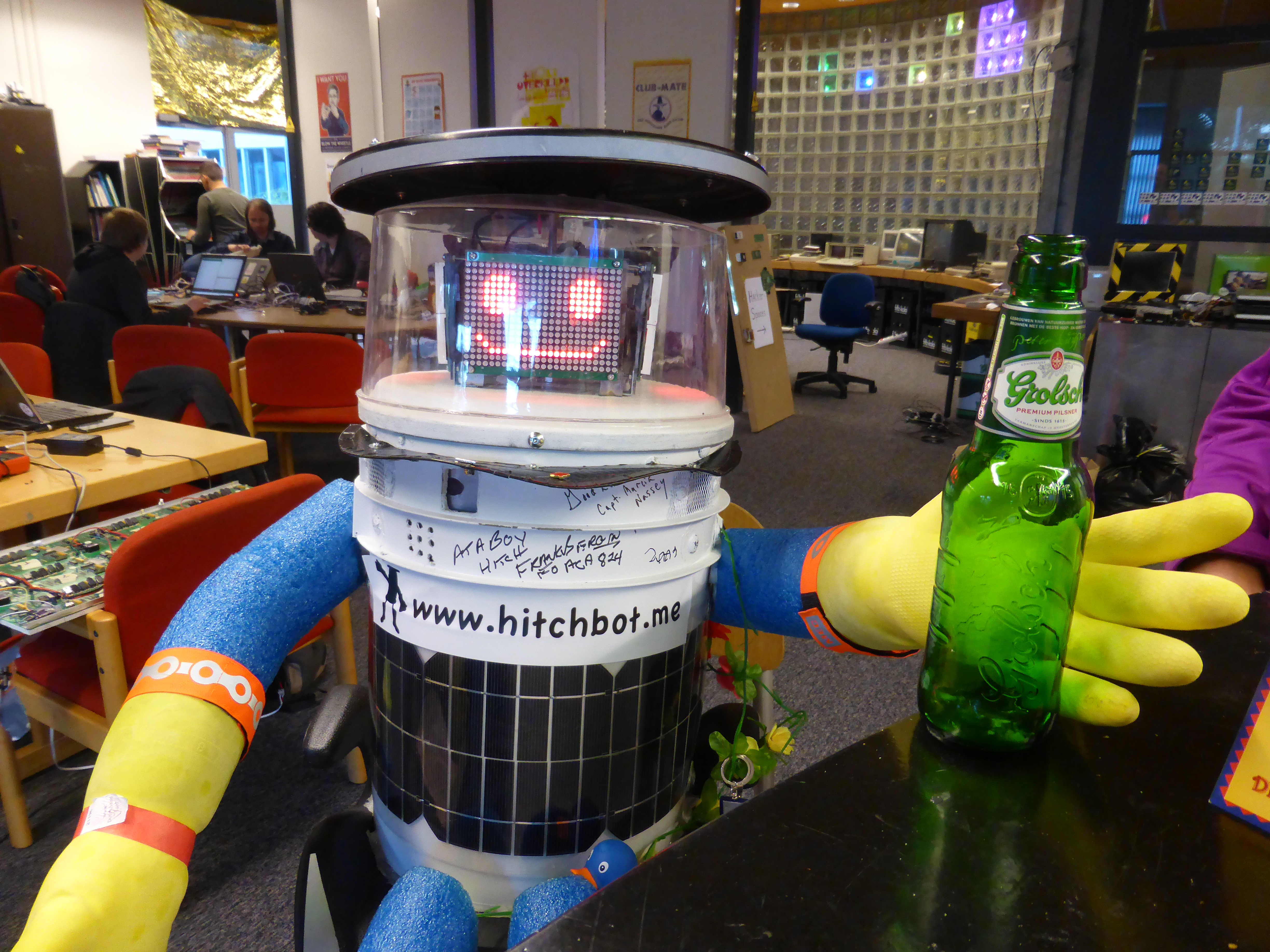 hitchBOT visiting TkkrLab in the Netherlands